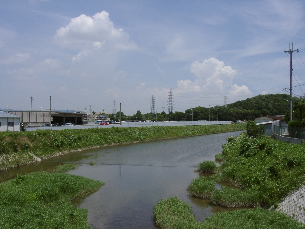 Katsuoji River (Ibaraki, Osaka, Japan)